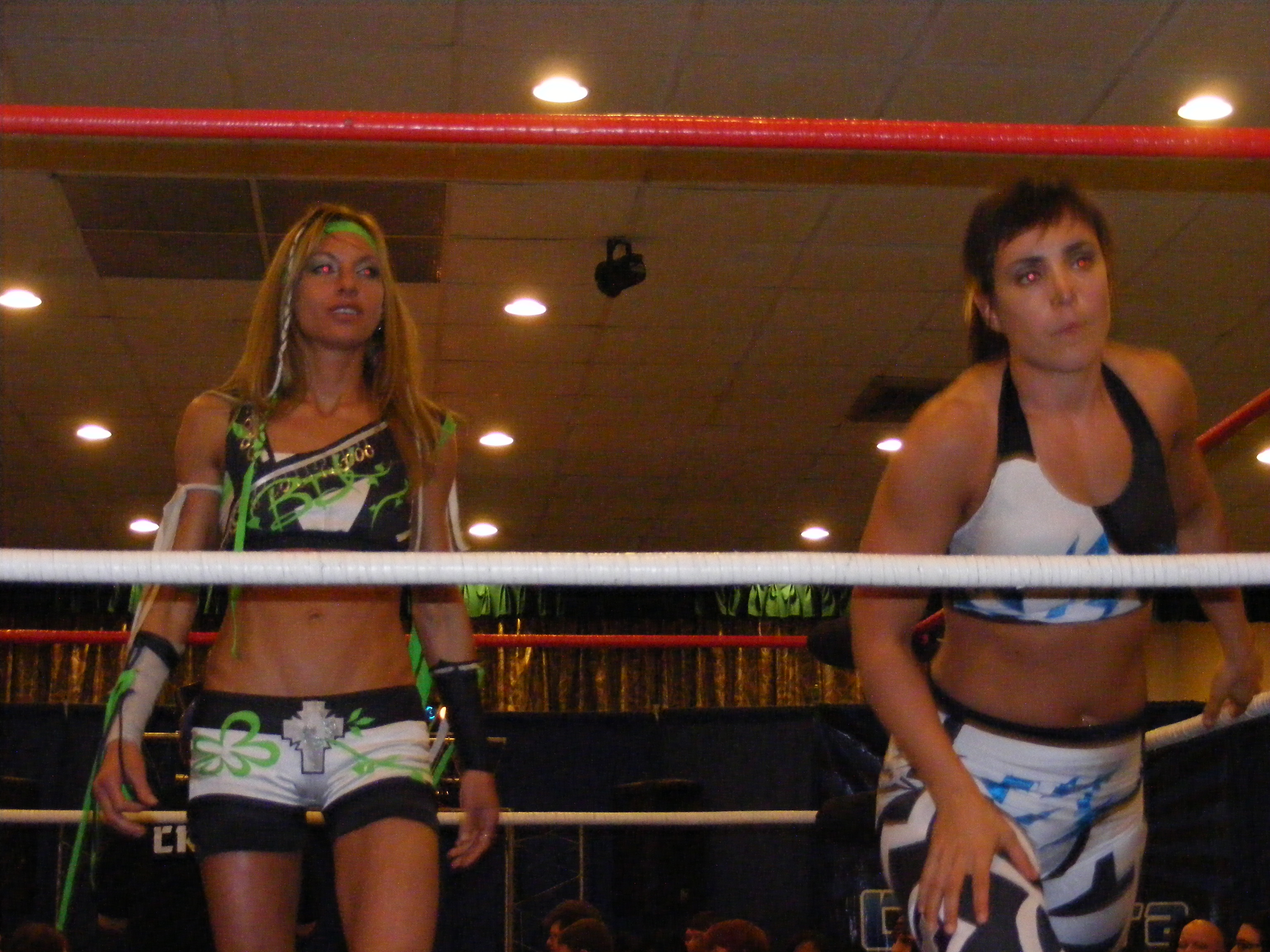 Professional wrestlers Daizee Haze and Sara Del Rey at a Chikara event